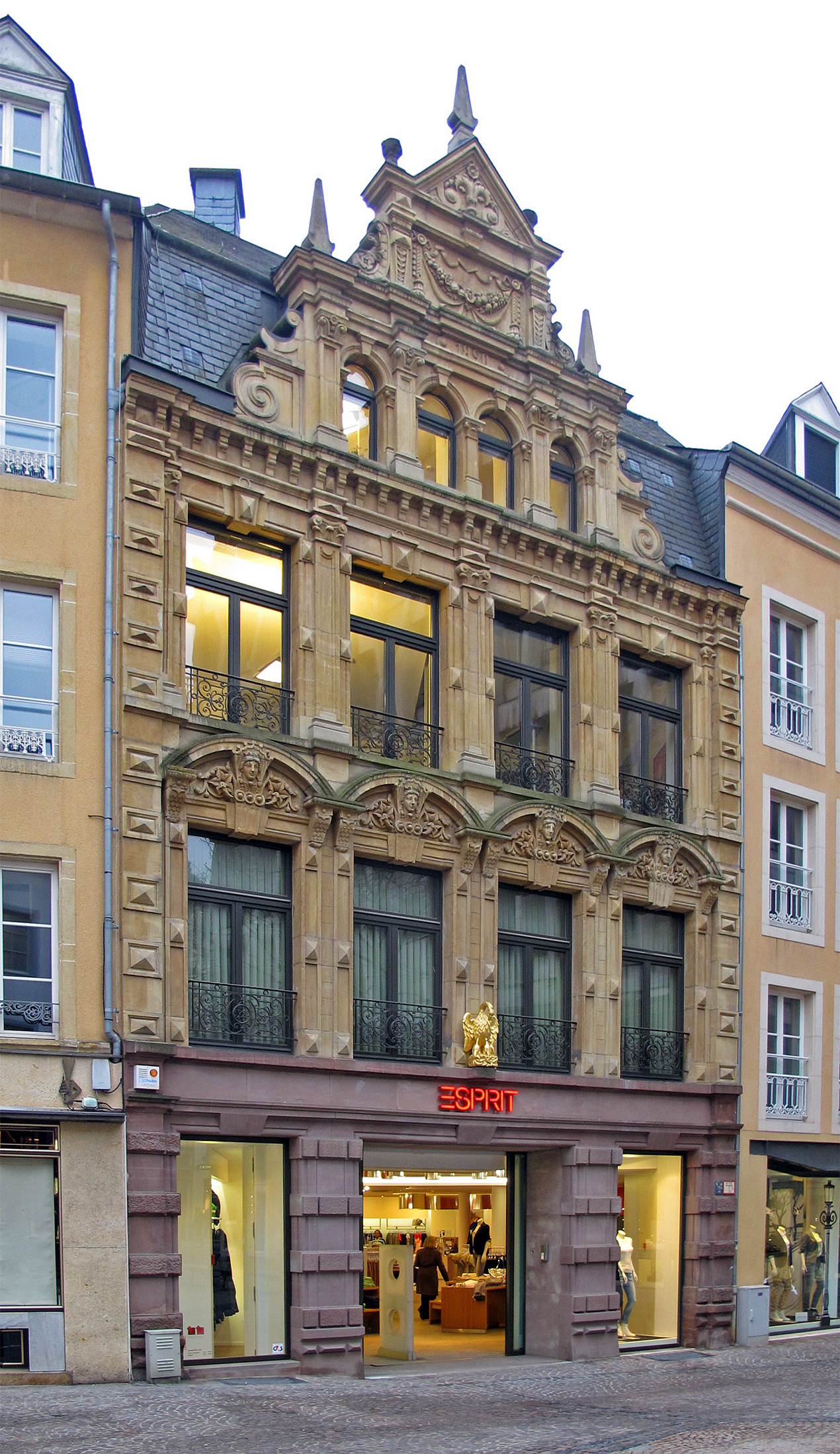 Building in Luxembourg-City, 23 Grand-Rue